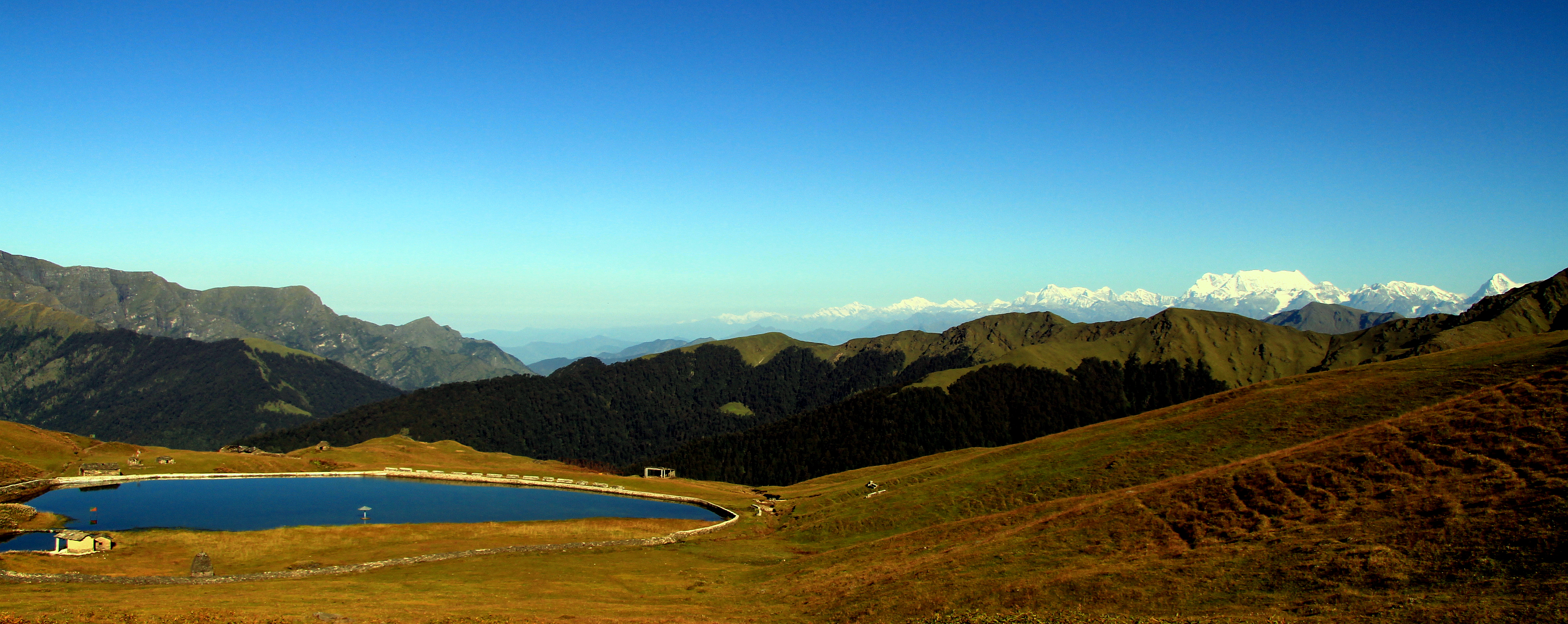 Bedini Kund near Bedini Bugyal (a Himalayan Alpine meadow) at elevation of 11,000 feet in Himalaya in Chamoli district of Uttarakhand, India.